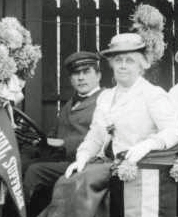 Mrs Cannon with her chauffeur